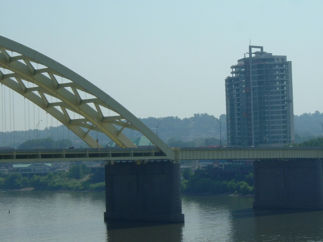 Newport KY high rise